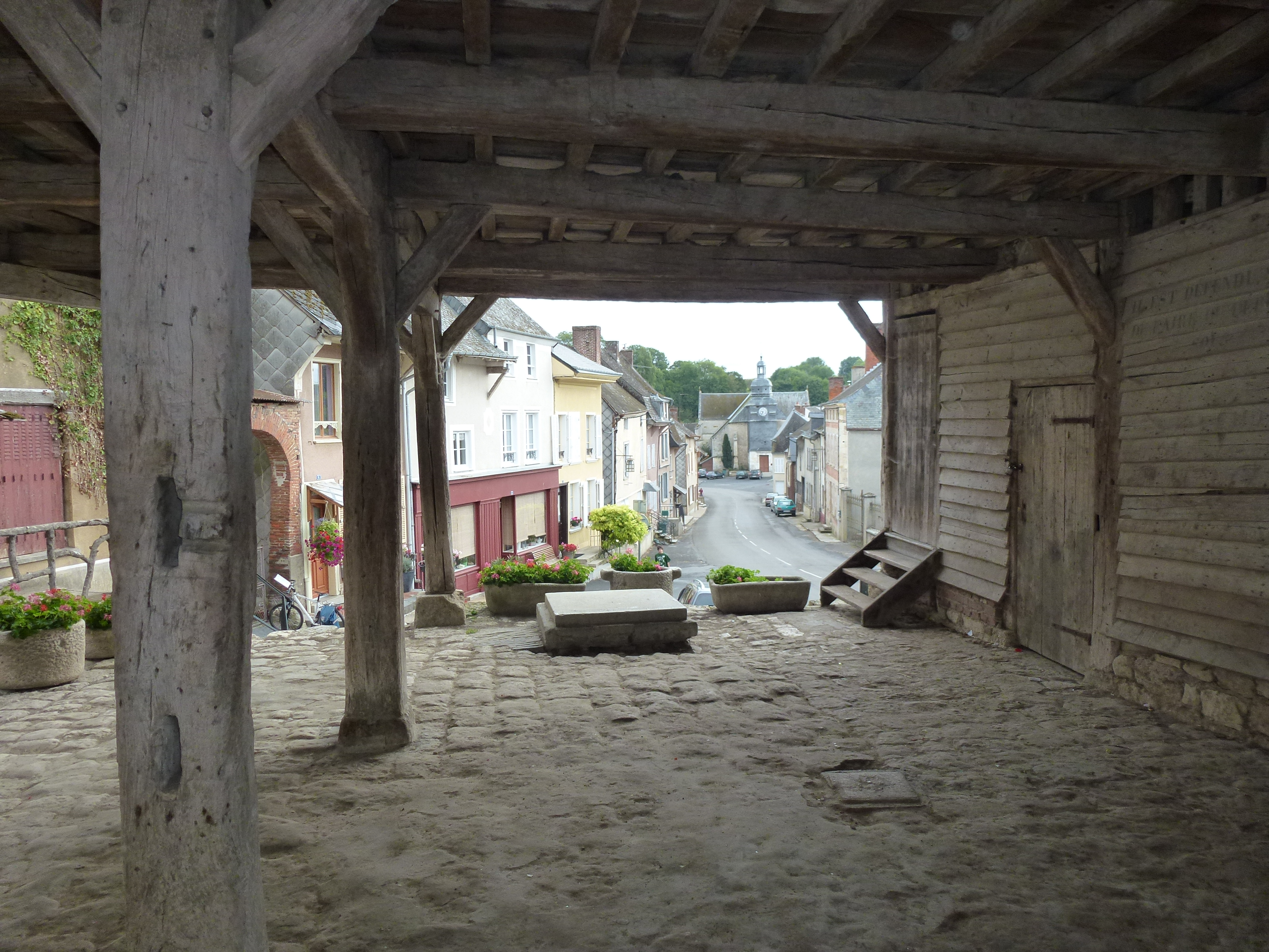 Wasigny (Ardennes) Halle